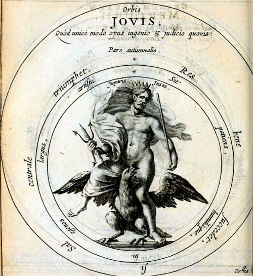 Jovis, its eagle and scepter from alchemical tracts of John de Monte Snyder. "Reconditorium ac reclusorium opulentiae sapientiaeque numinis mundi magni, cui deditur in titulum Chymica vannus". 1666